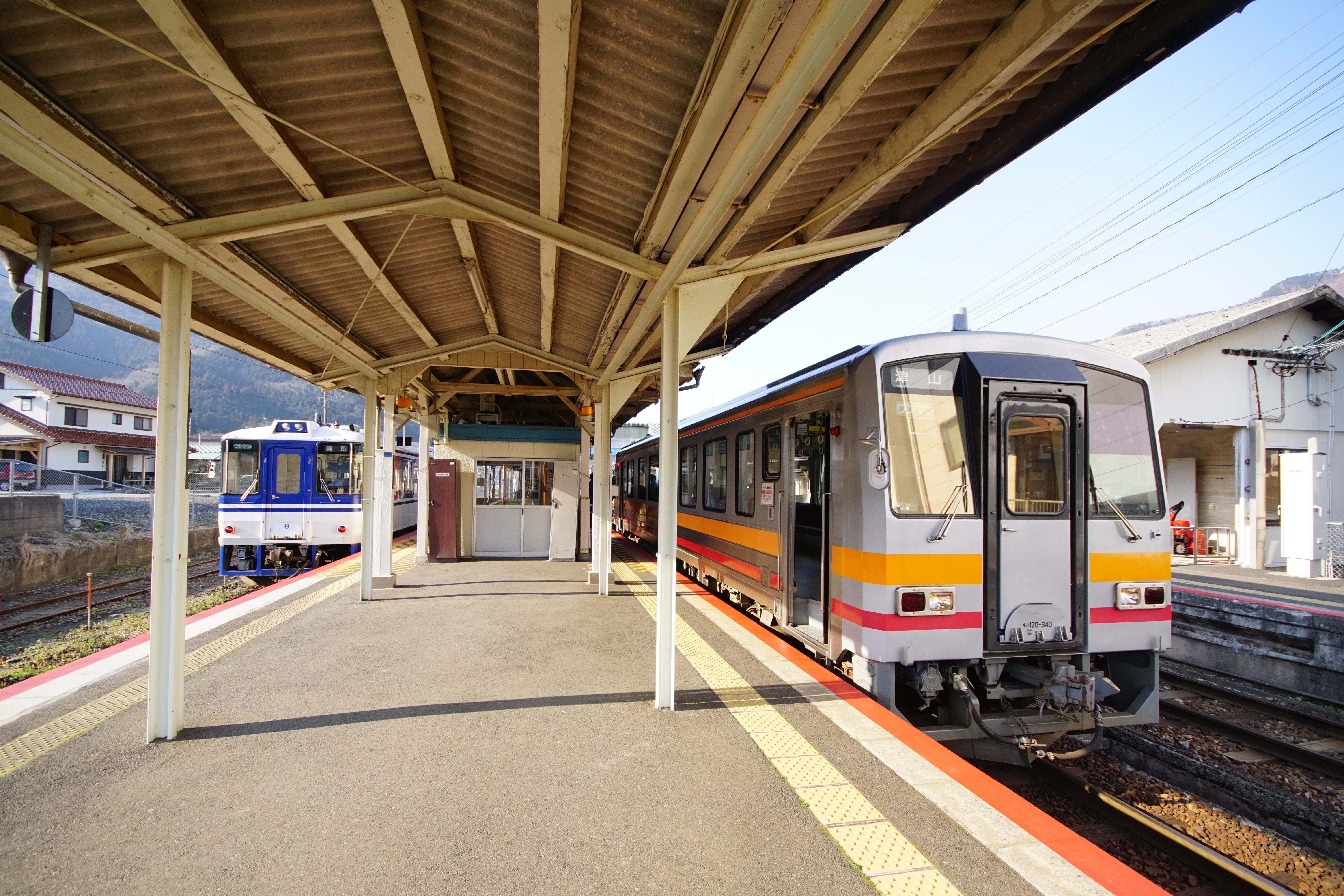 Trains at Chizu Station